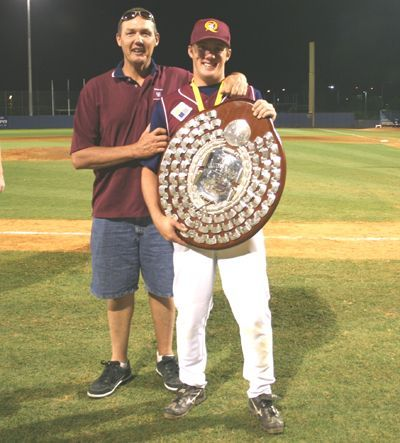 Jay Nilsson holding the Claxton Shield